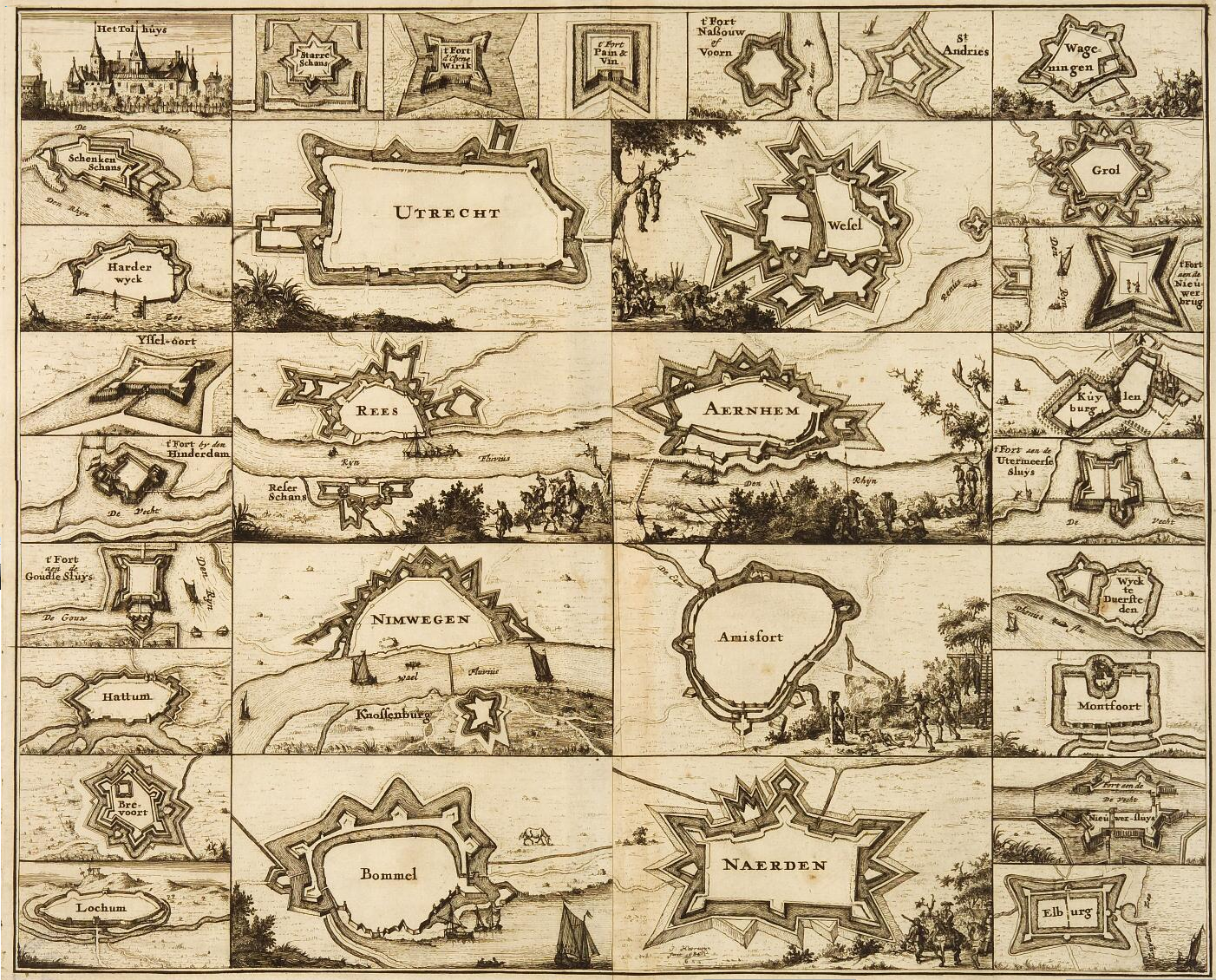 Fortified cities in Gelderland, Holland, Utrecht and Germany